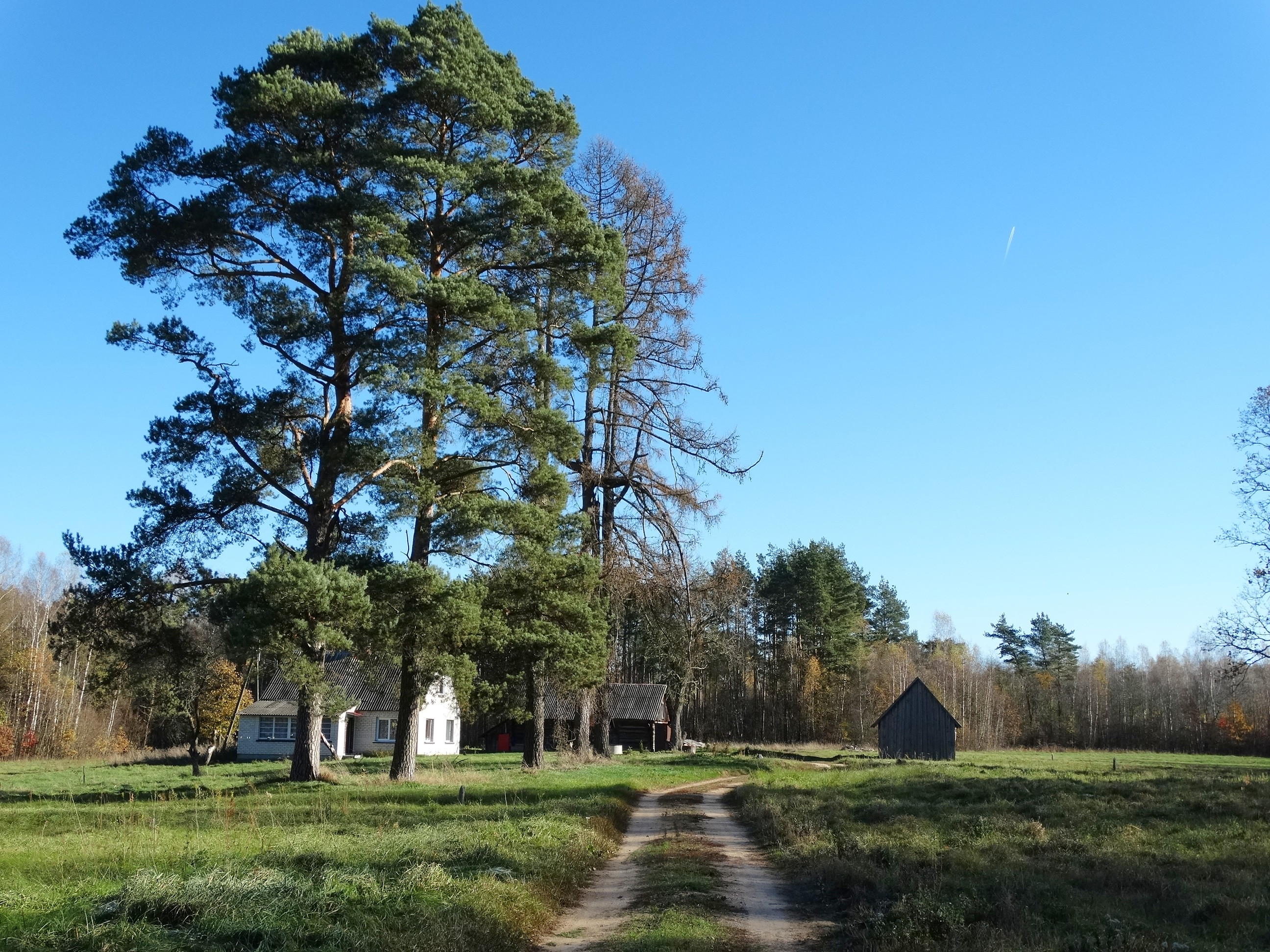 Pakrovai, Prienai district, Lithuania